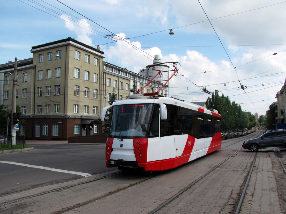 Tram ЛМ-2008 in Donetsk